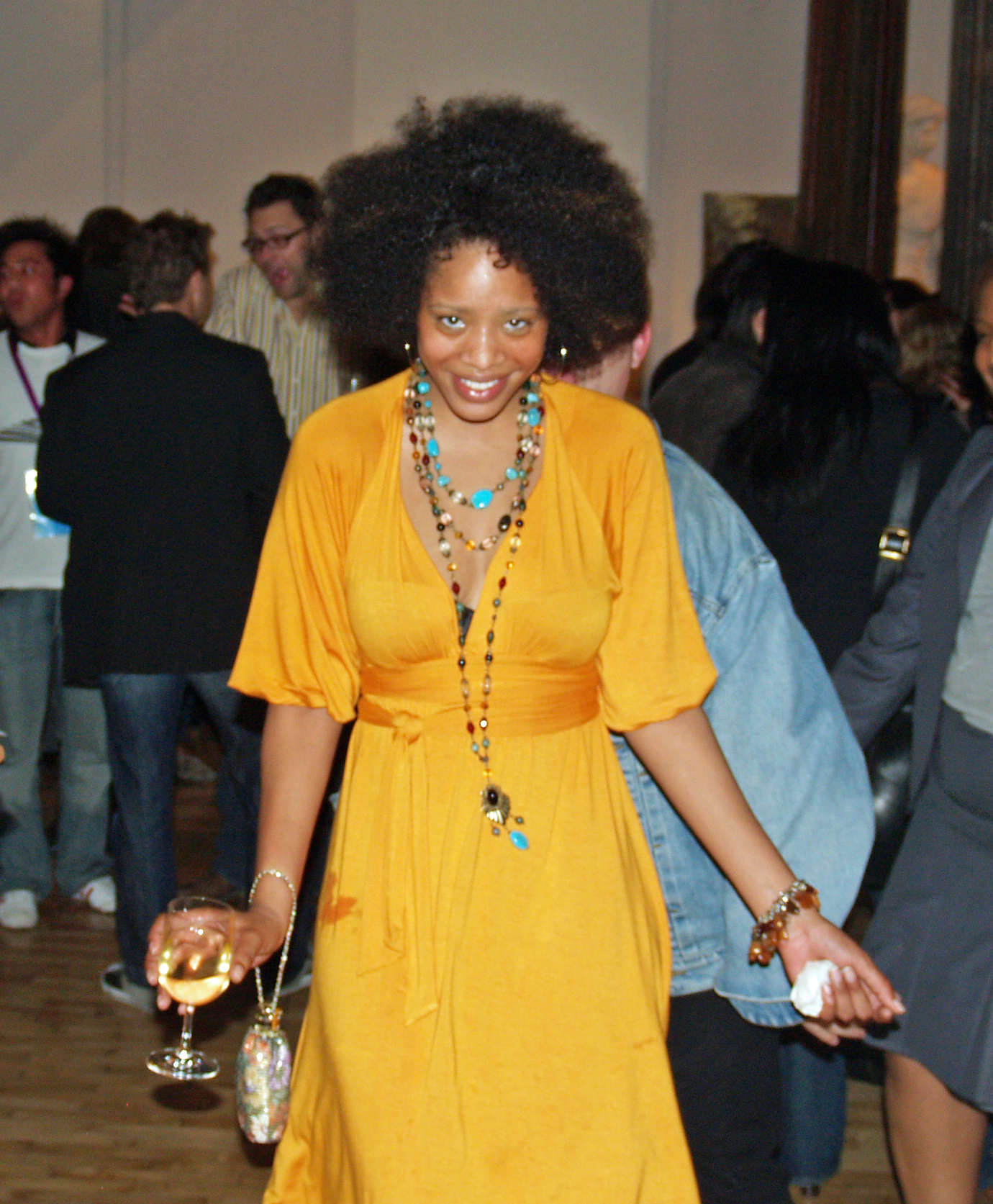 Afro-ed dancer at the Tribeca Film Festival